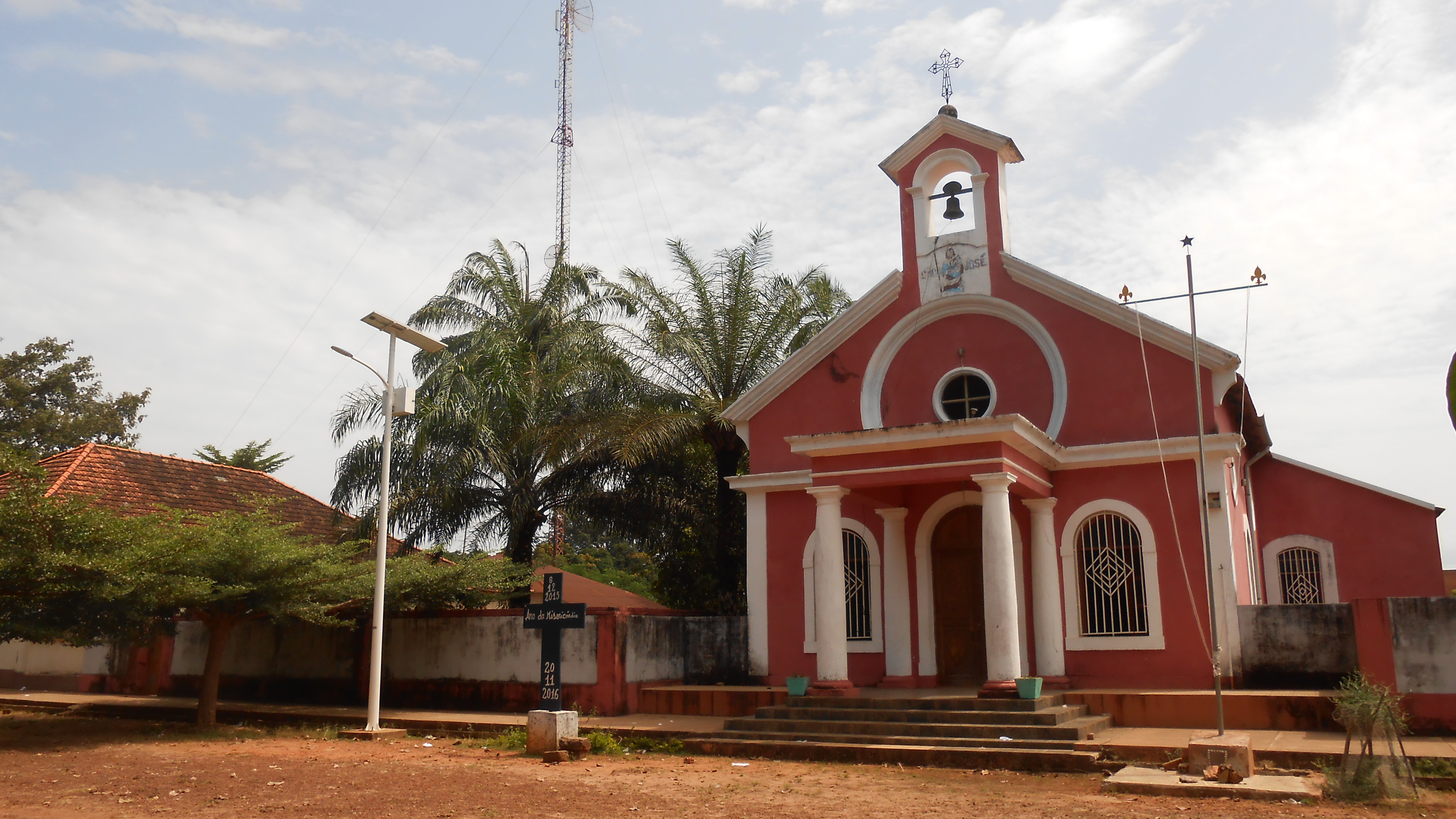 The Igreja de São José church in Bolama.